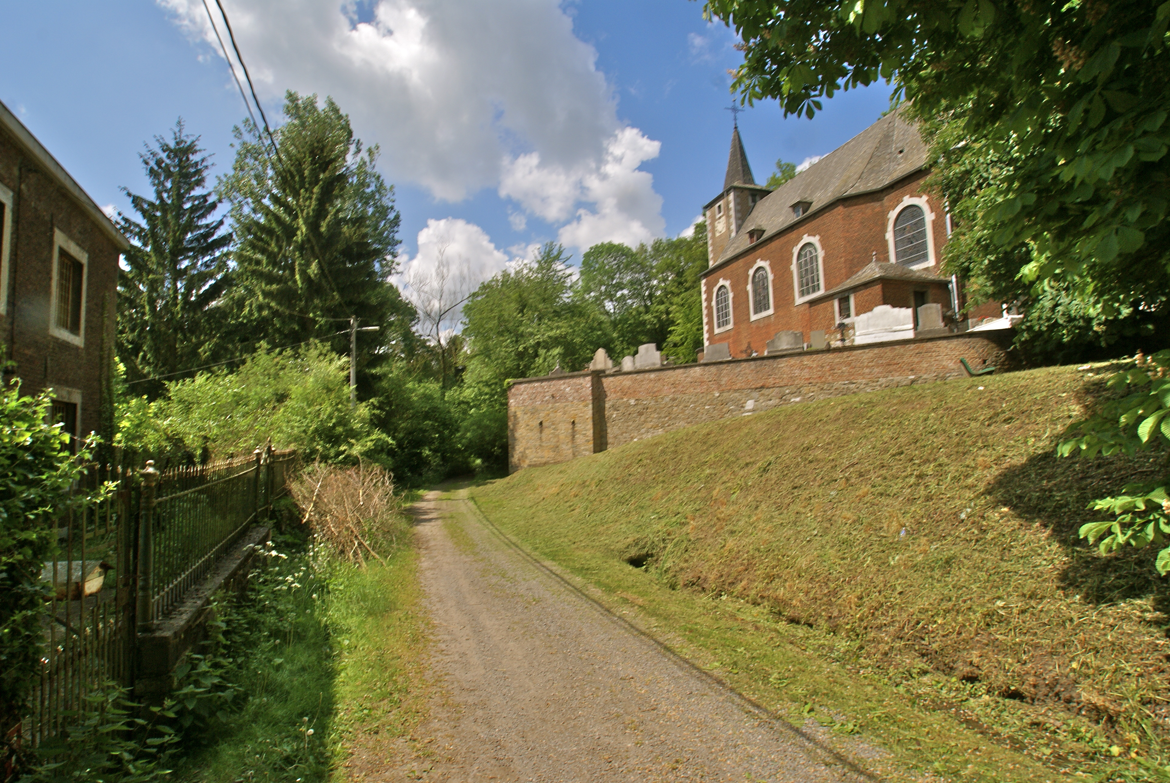 Flémalle (Gleixhe), Belgium: Lambert of Maastricht Church and public footpath